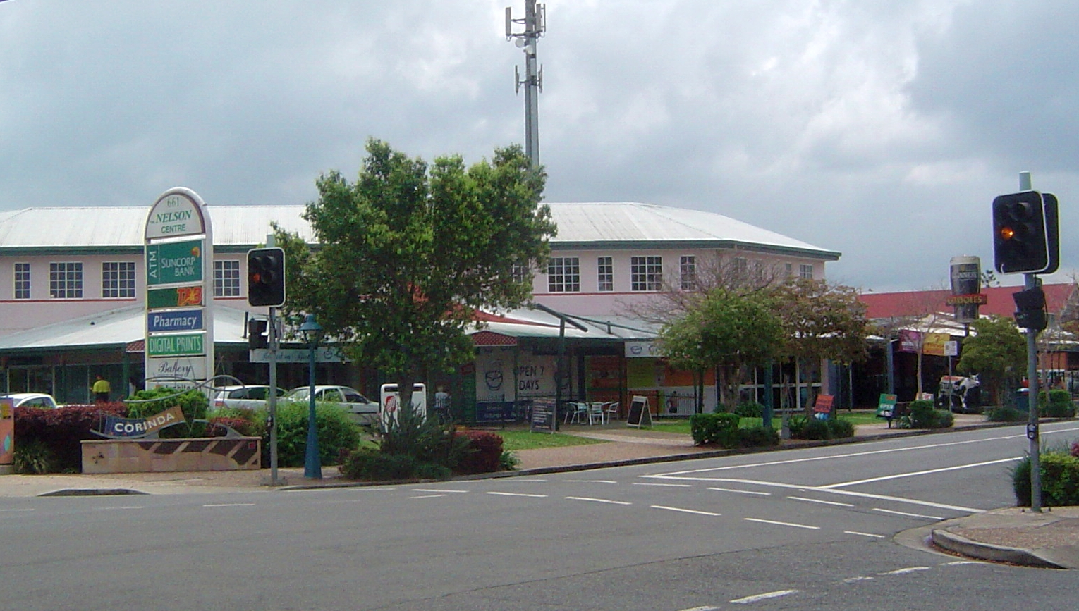 Photo of corner of Oxley Road and Nelson Streets showing landscaping and shops.